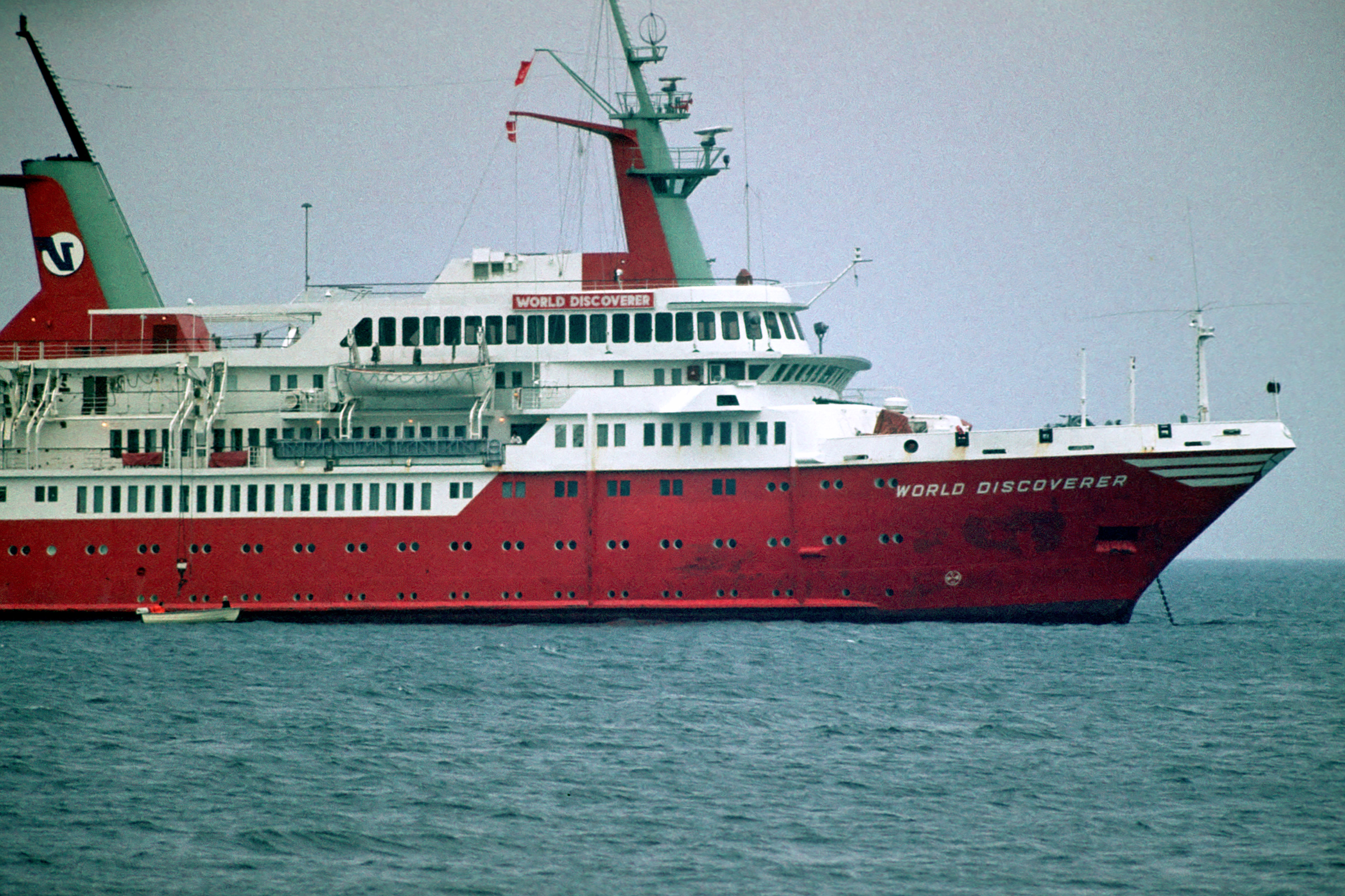 World Discoverer in the Baltic Sea in front of Gudhjem / Bornholm